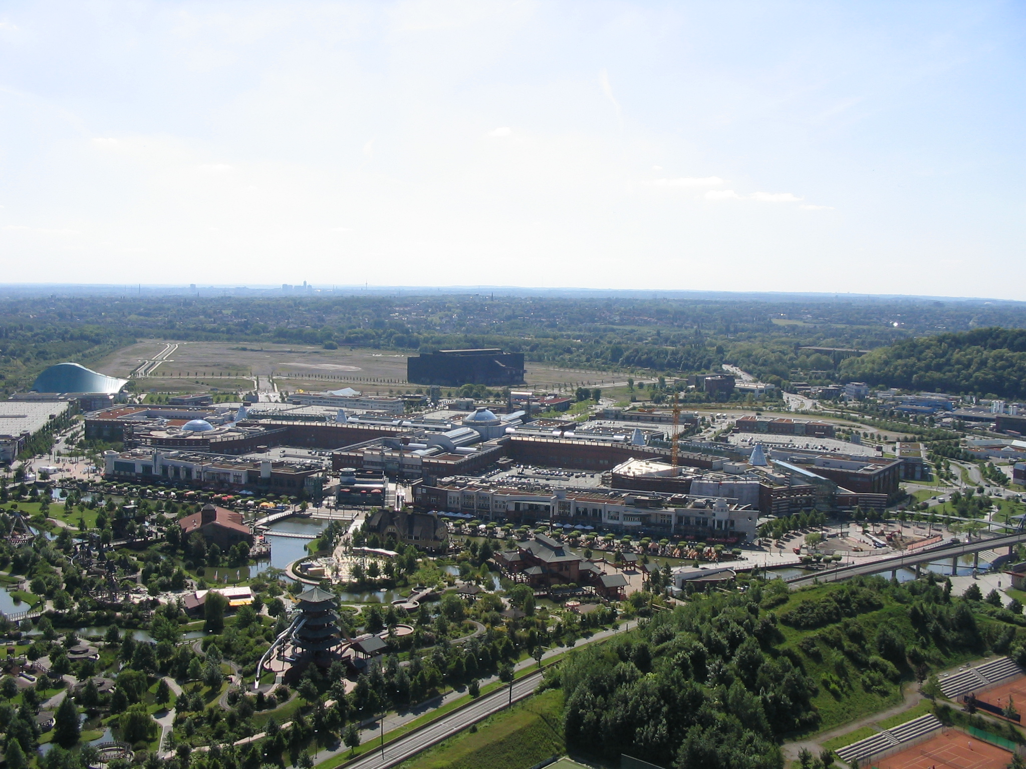 View from the roof of the gasometer to the CentrO